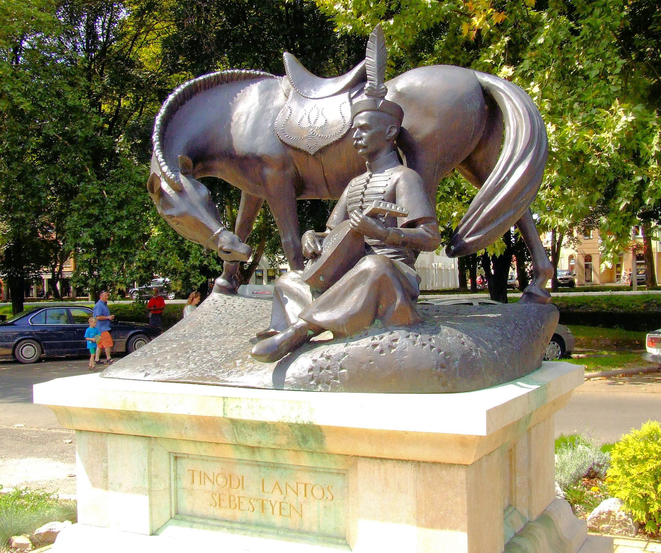 Statue of Sebestyén Tinódi Lantos in Dombóvár. Sculptor: Dávid Raffay (*1973) in 2000